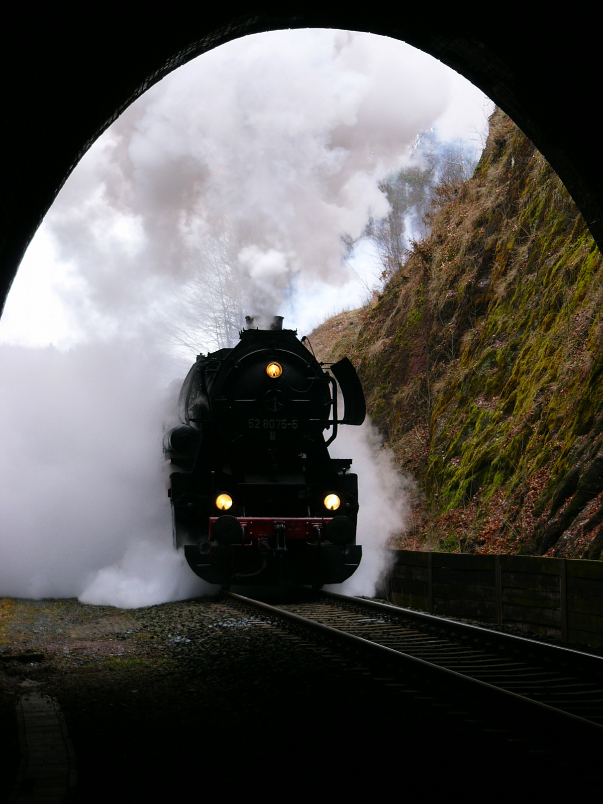 Deutsche Reichsbahn DR Clas 52.80 steam locomotive number 52 8075 at the entrance of the Förthaer Tunnel, (at Eisenach) Germany.